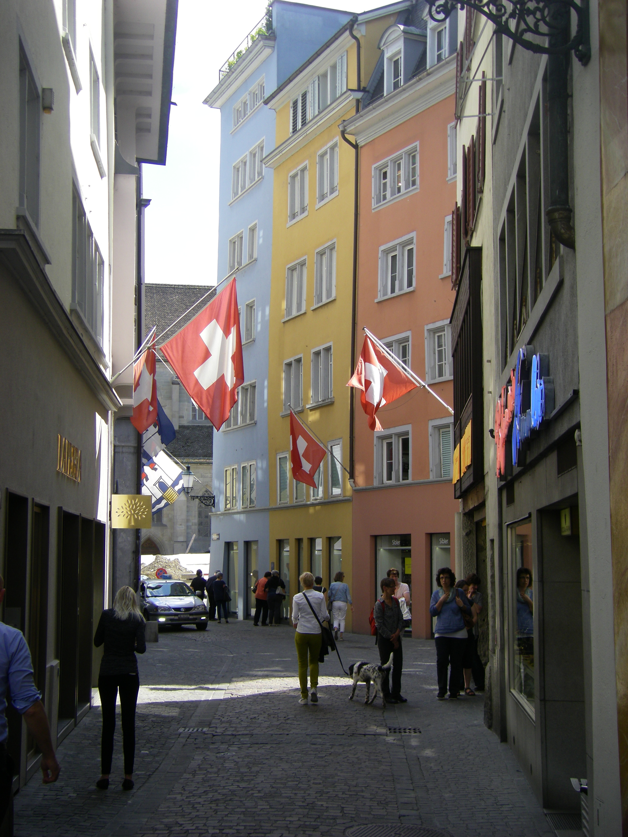 View into Storchengasse, Zurich